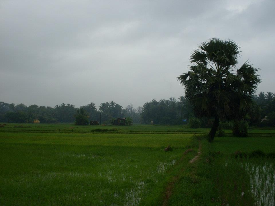 scenary in Koteshwara